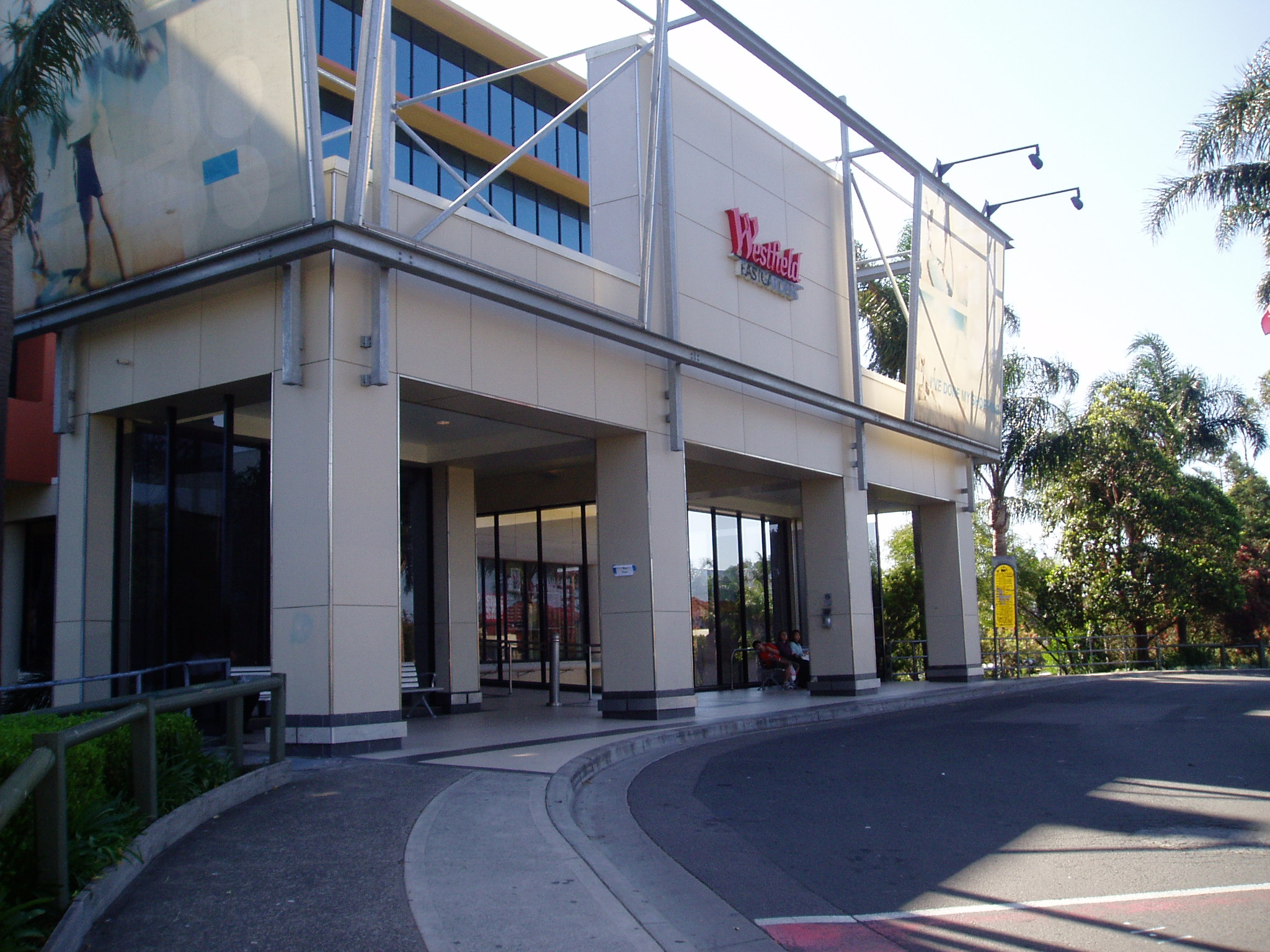 Front entrance (upper level) to Westfield Eastgardens on 4 October 2006